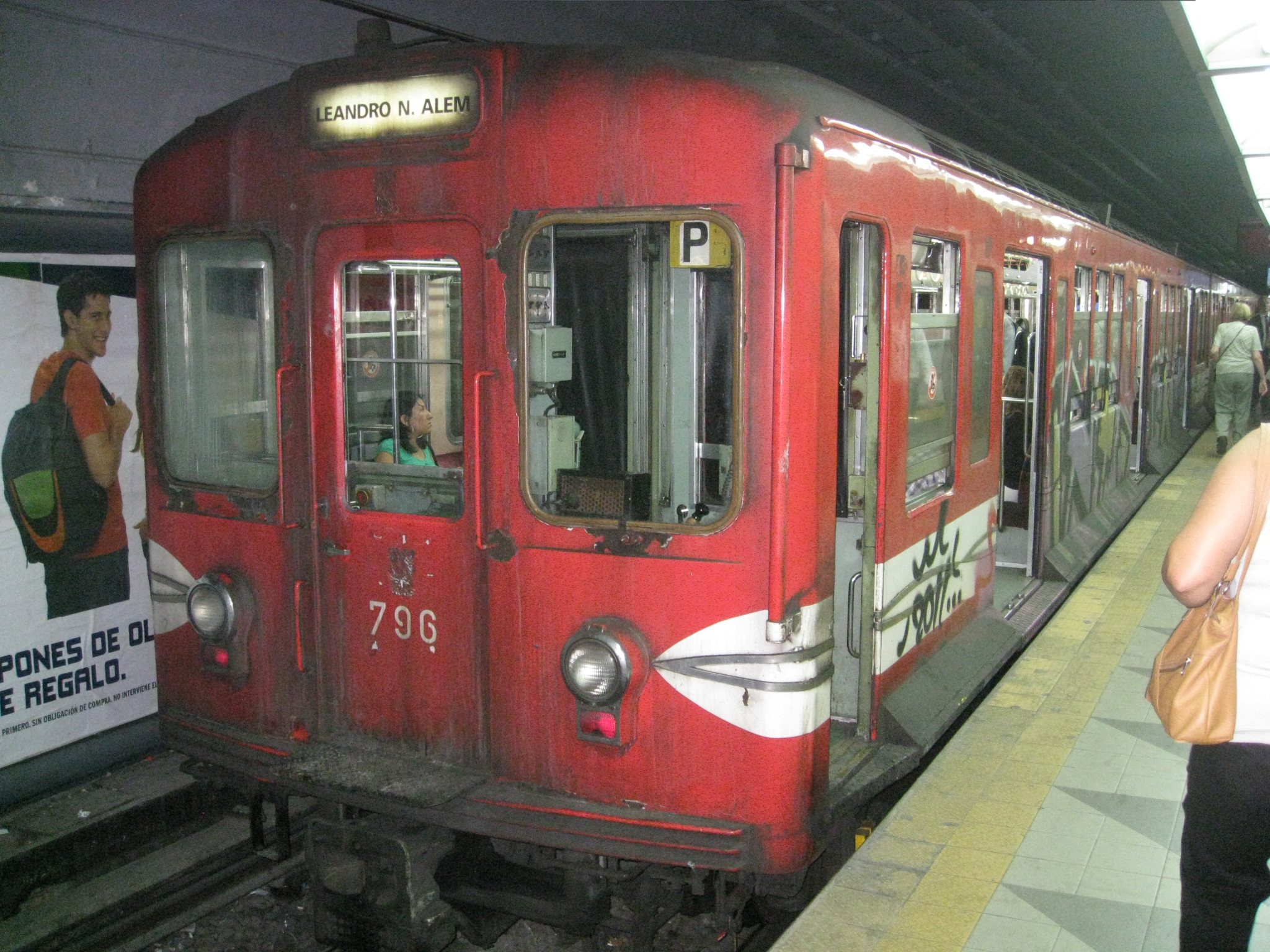 Fleets used in subway line B in Buenos Aires (former used in Marunouchi line in Tokyo.)